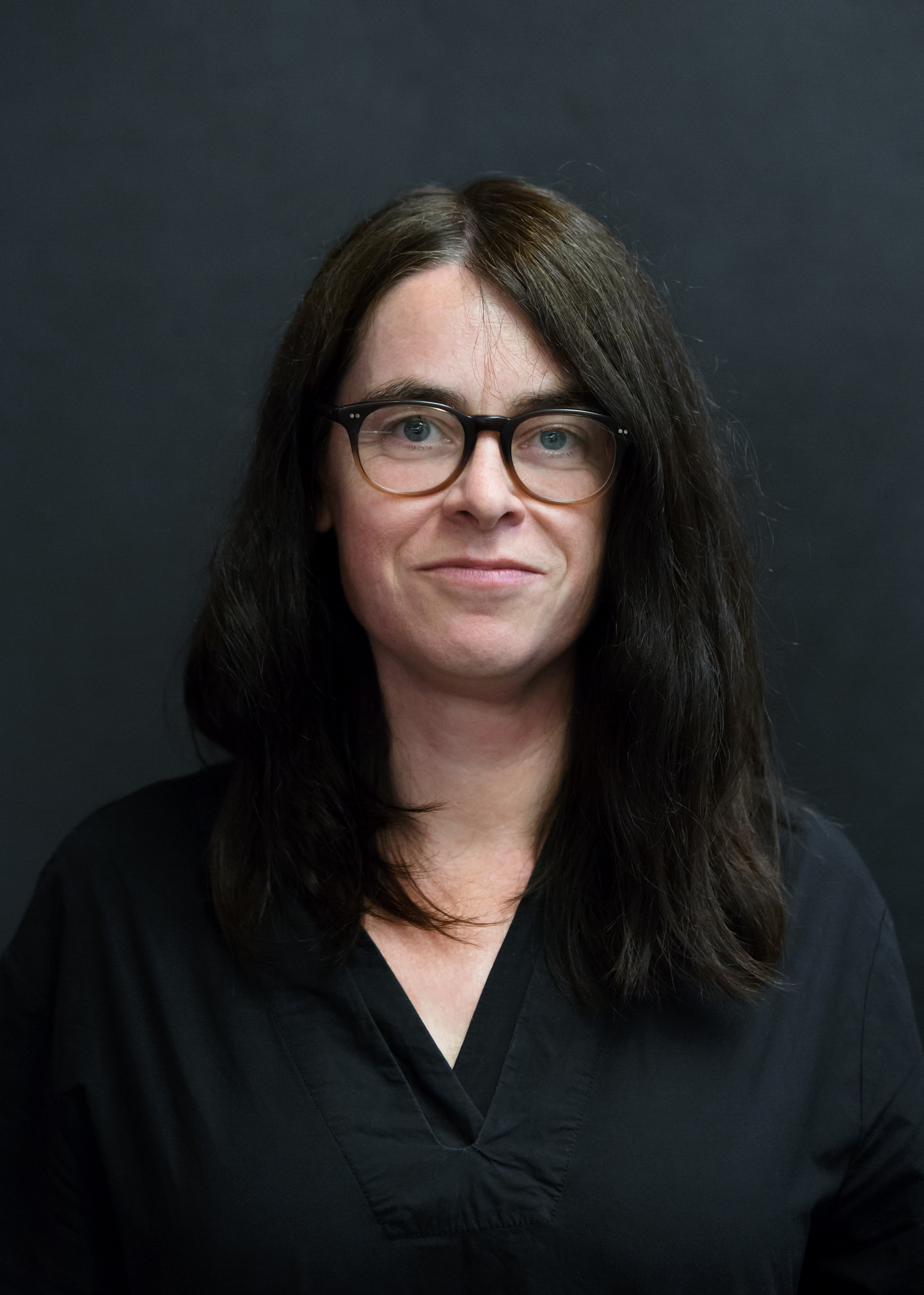 Anouk De Clercq at Vienna Independent Shorts 2016 (Metro-Kino, Vienna, Austria).